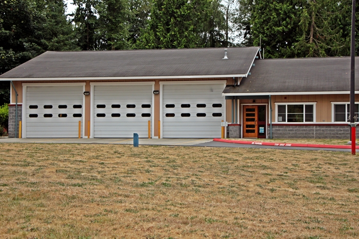 North Kitsap Fire and Rescue Station 81 in Hansville, Washington, USA